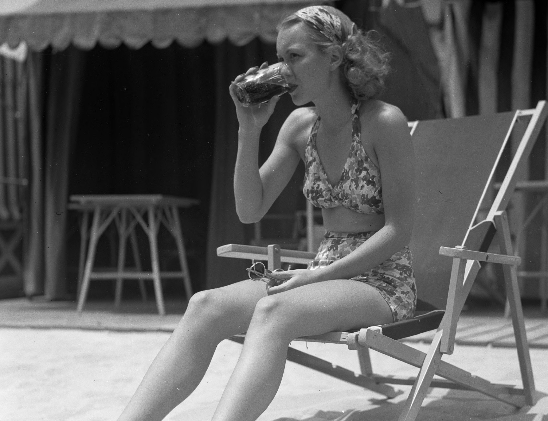 cropped version of File:Jane Wyman,1935.jpg